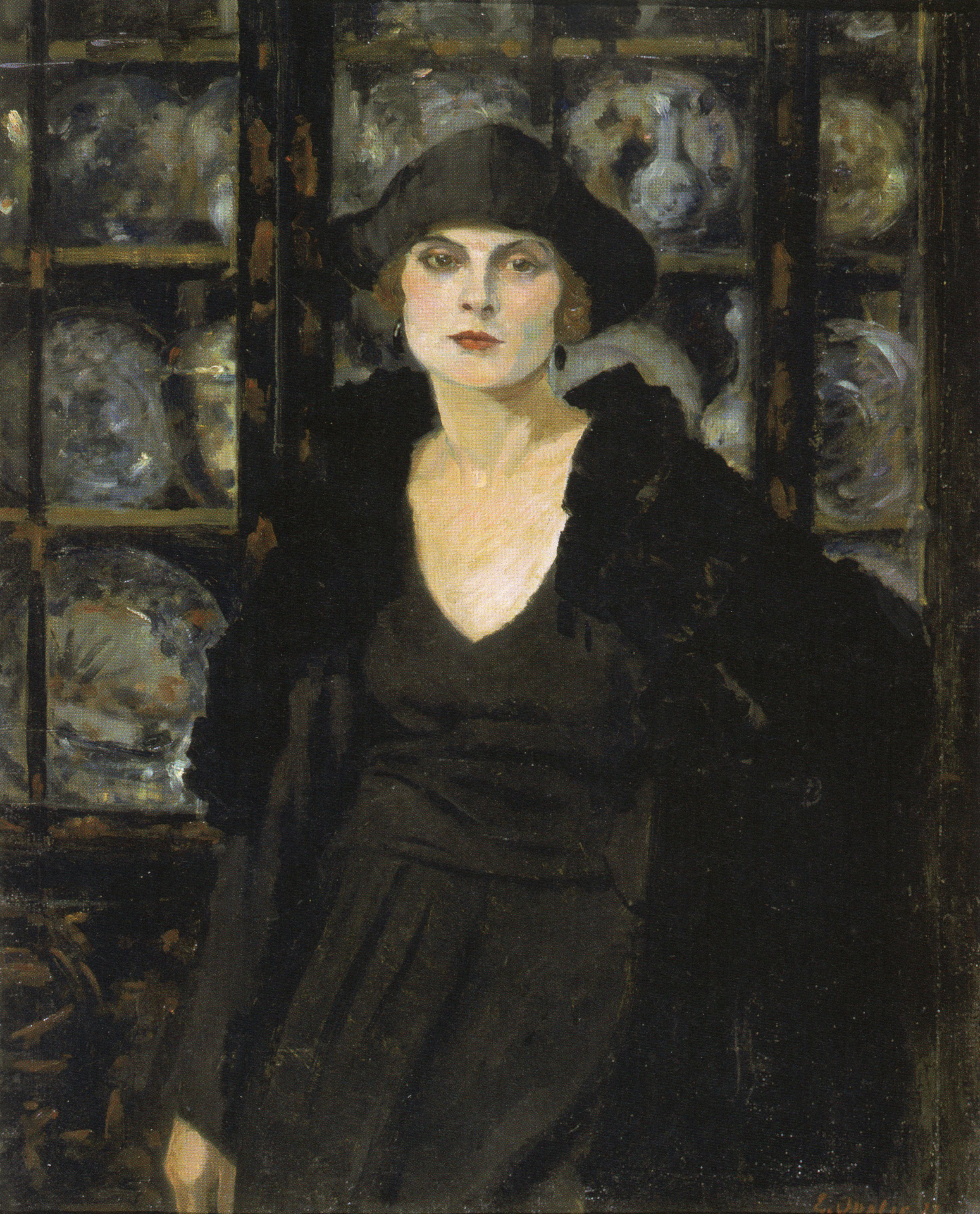 A woman in the appartment of Oppler